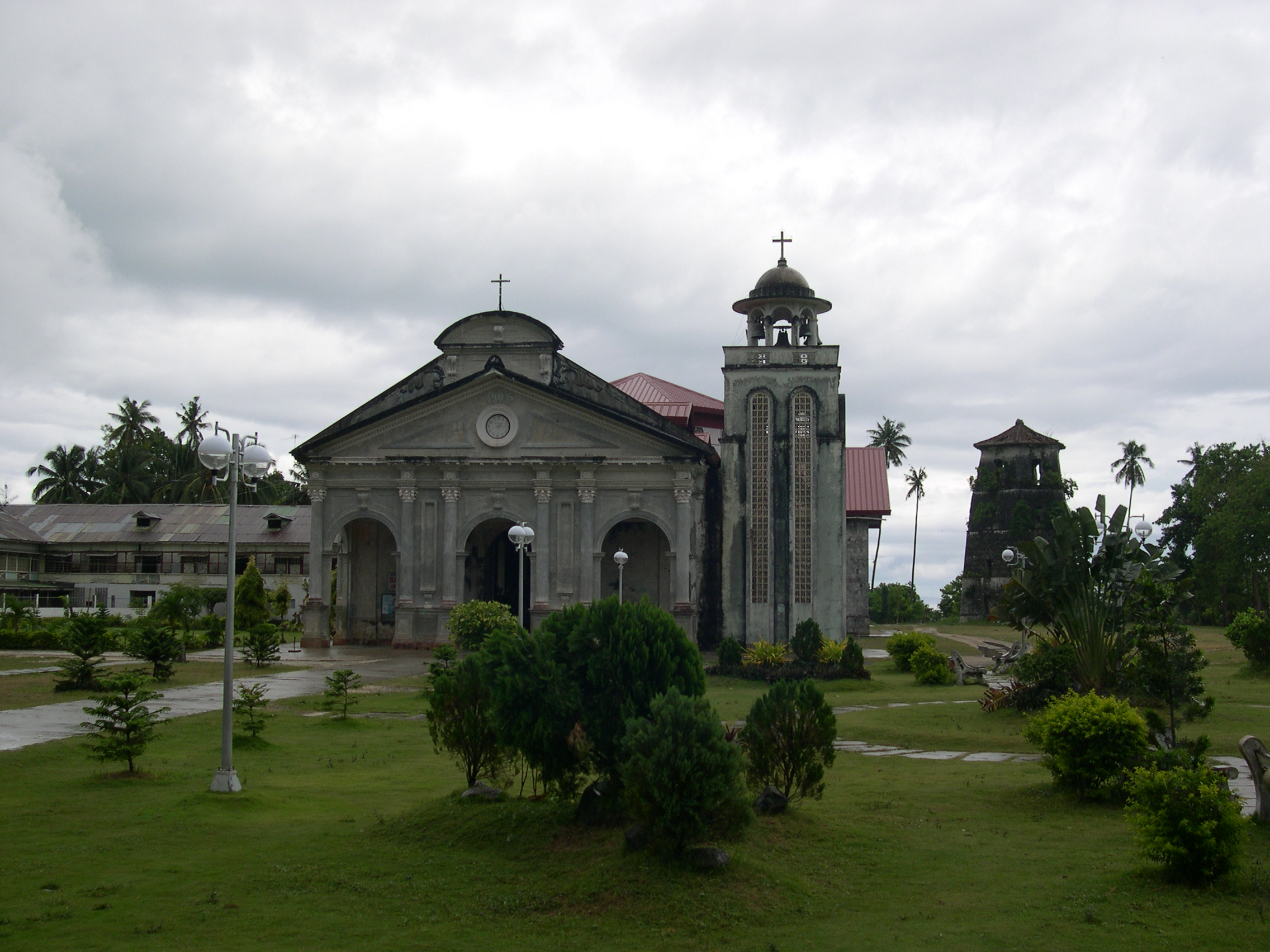 The outside of St. Augustine church in Panglao, Bohol, Philippines with the watchtower next to it.